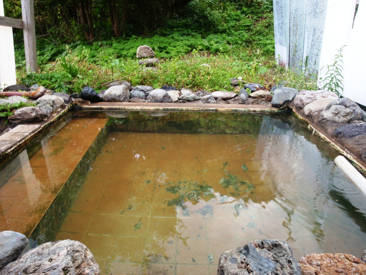 Guunai Onsen in Shimamaki, Hokkaido.